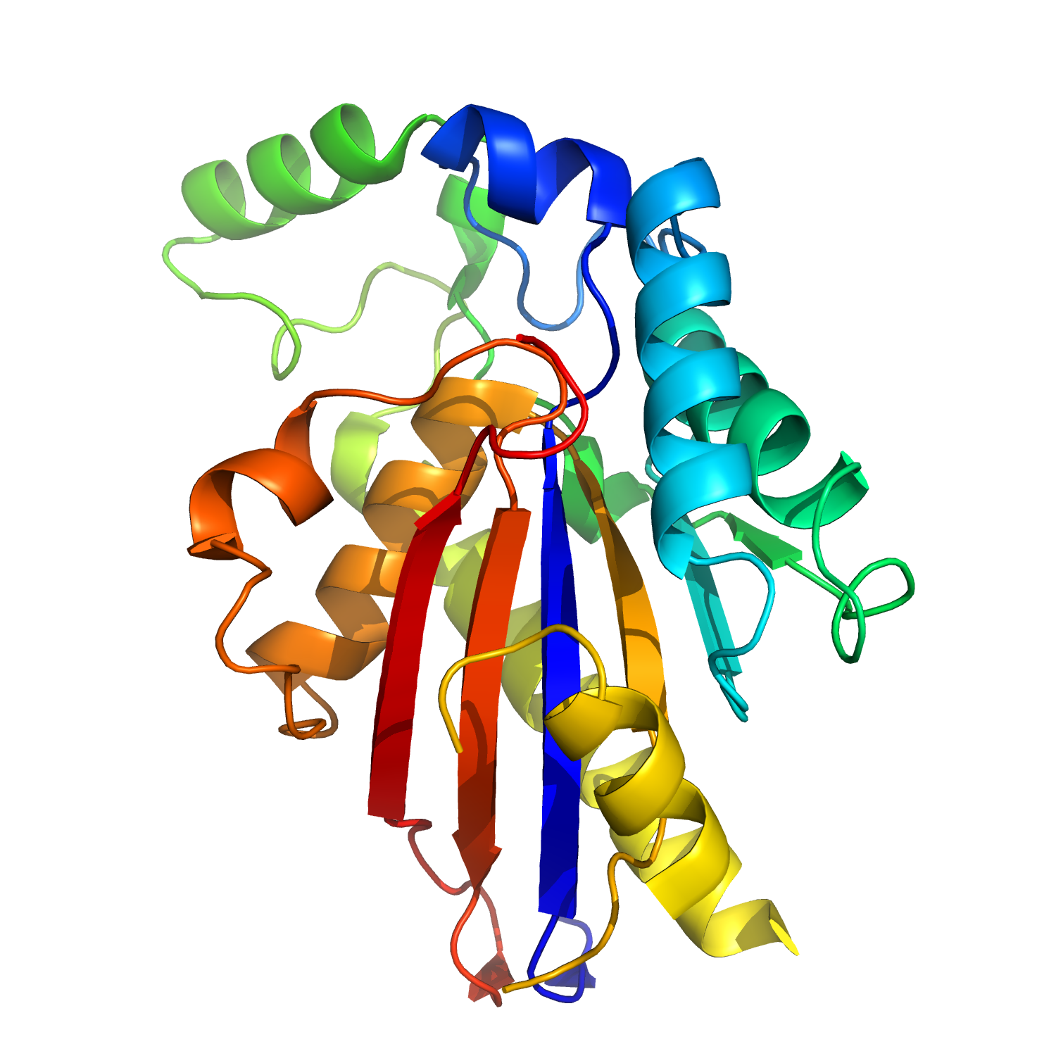 Crystal Structure a TP53-induced glycolysis and apoptosis regulator protein from Homo sapiens.